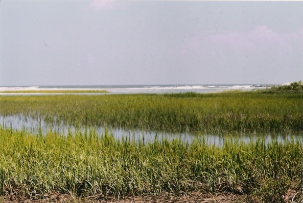 Looking out over the tidal marsh to the Folly as the tide comes in, at Hilton Head Island, South Carolina, United States.